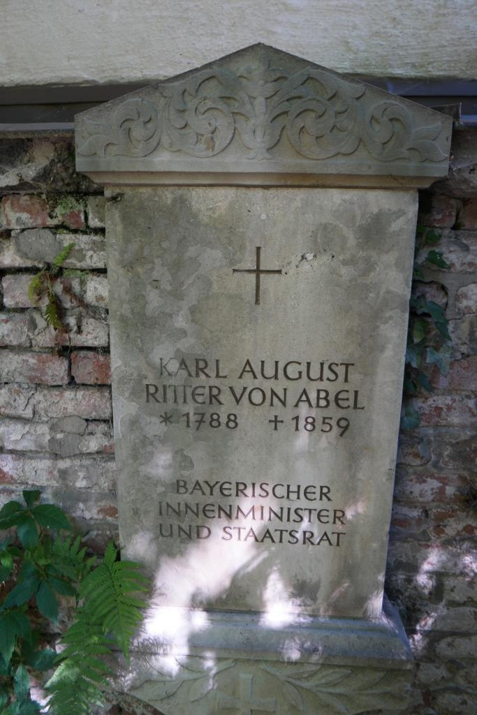 SAMSUNG CSC